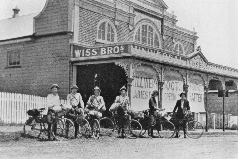 Wiss Brothers General Store in Kalbar, Queensland 1921 Delivery boys on bicycles in front of Wiss Brothers general store in Kalbar.